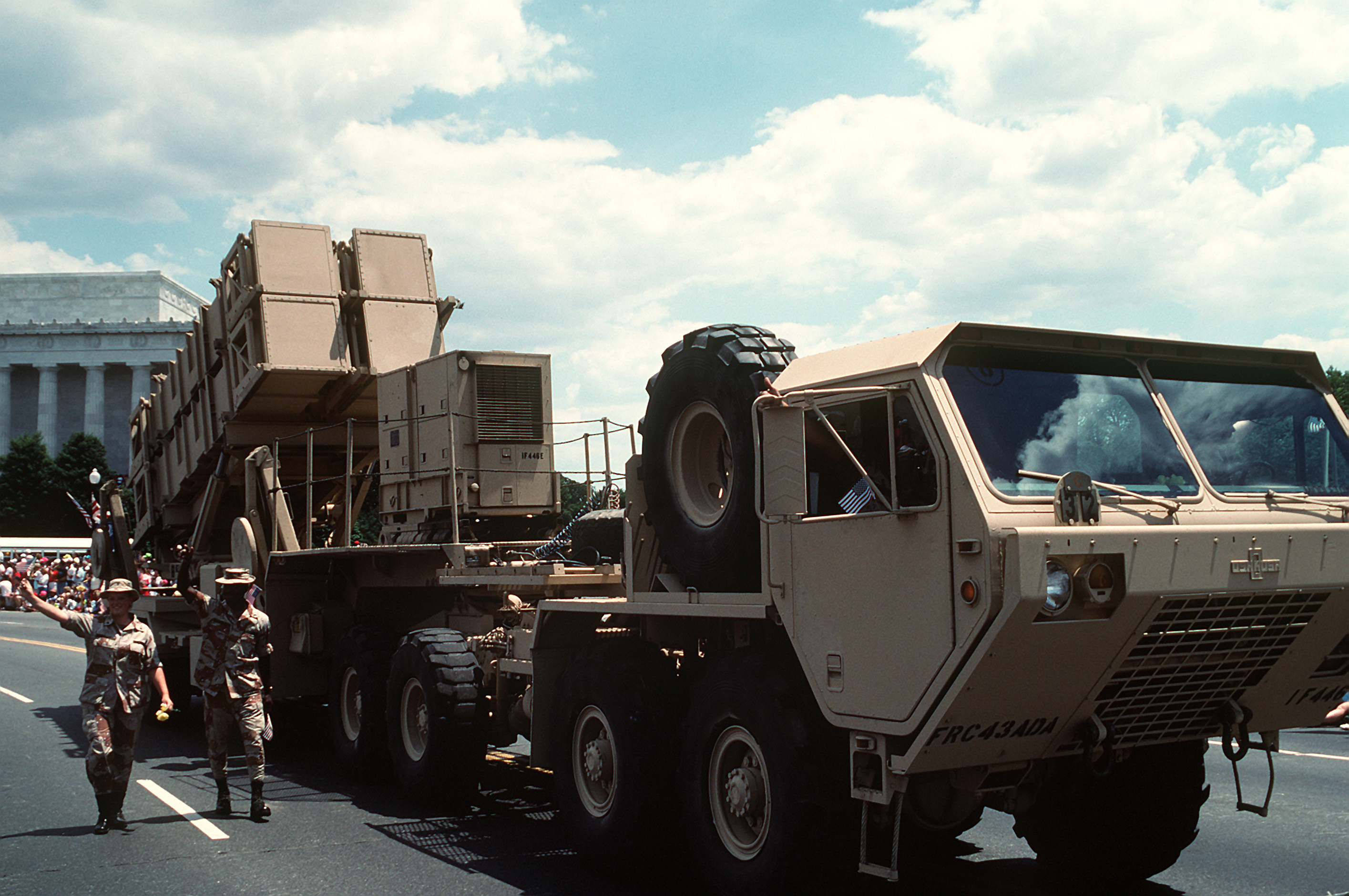 A MIM-104 Patriot tactical air defense missile system is towed by a heavy expanded mobility tactical truck in the National Victory Celebration parade honoring the coalition forces of Desert Storm.